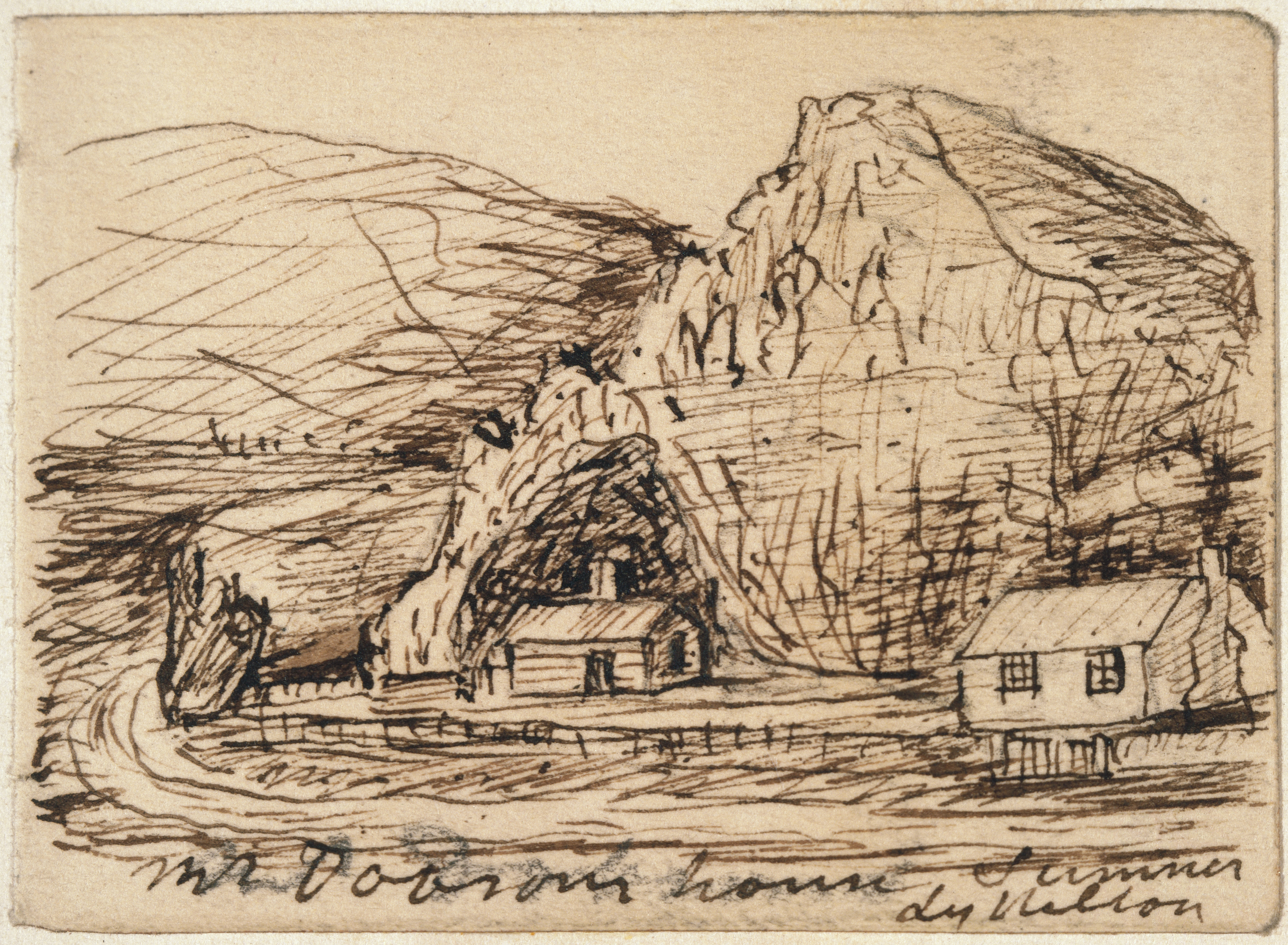 1 drawing in sketchbook; Pen and ink 40 x 60 mm. Shows two small buildings on the shore beneath a hill.